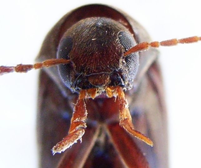 Head of Serropalpus barbatus from Southern Germany (Kreis Tuttlingen) 700 m